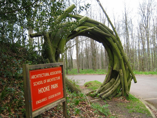 Entrance - Hooke Park Wooden sculpture adorns the entrance to the park. Hooke Park is 350 acres of woodland owned by the Architectural Association Inc who provide educational environmental programmes from which to experiment, build and design in timber and at the same time uphold the natural conservation of the area.